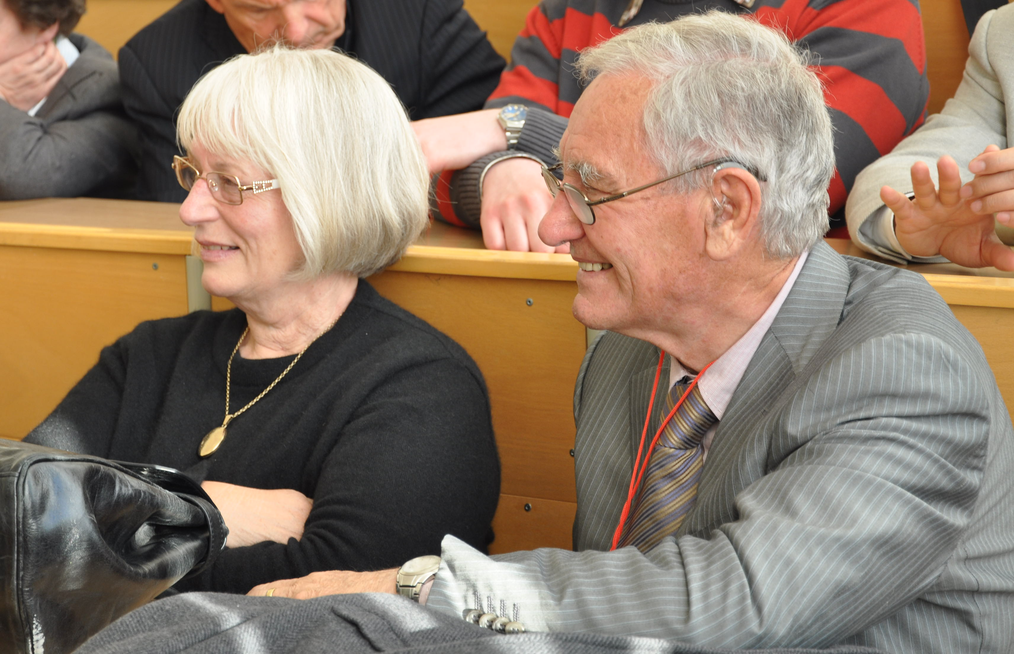 Roy and Margaret Kerr